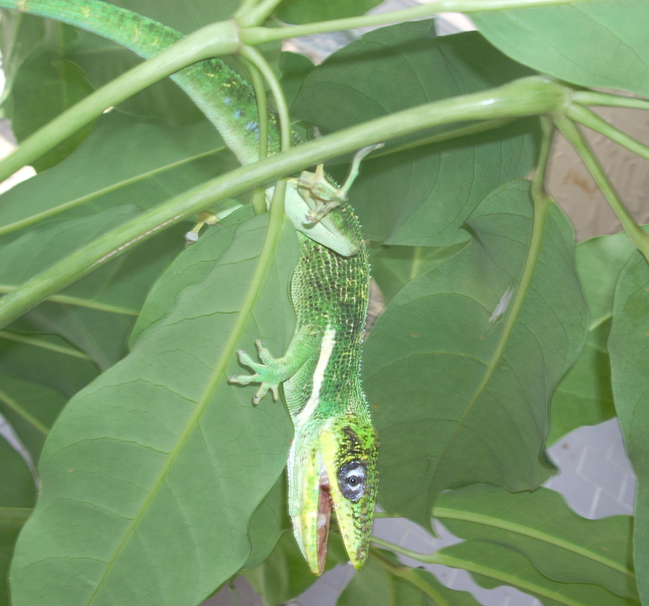 A picture of a knight anole (Anolis equestris)